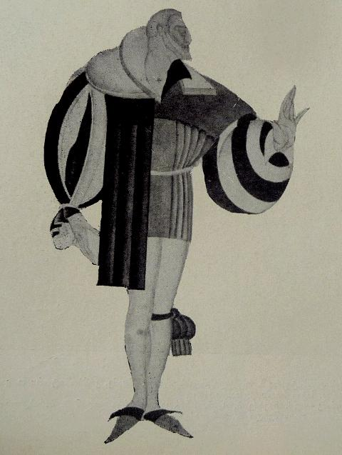 Petre Otskheli design of 1847 play Karl Gutzkow, Uriel Acosta, directed By Kote Marjanishvili in 1929